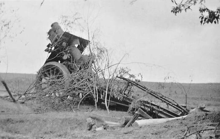 A 220 mm mortar M1916 abandoned by French soldiers in May 1940